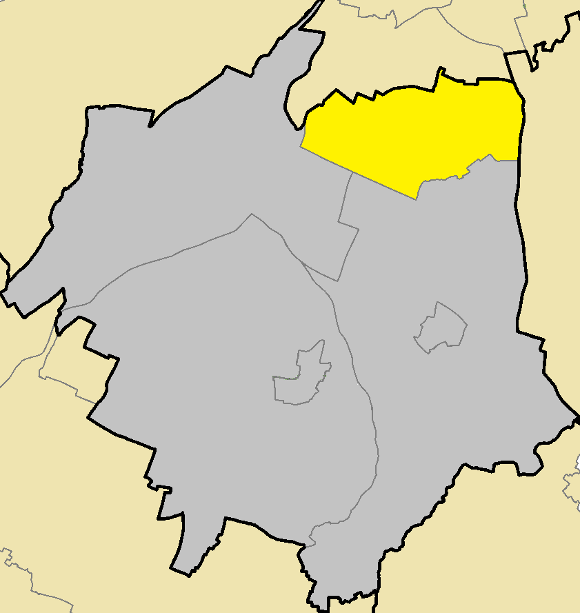 Agios Dimitrios in Strovolos.